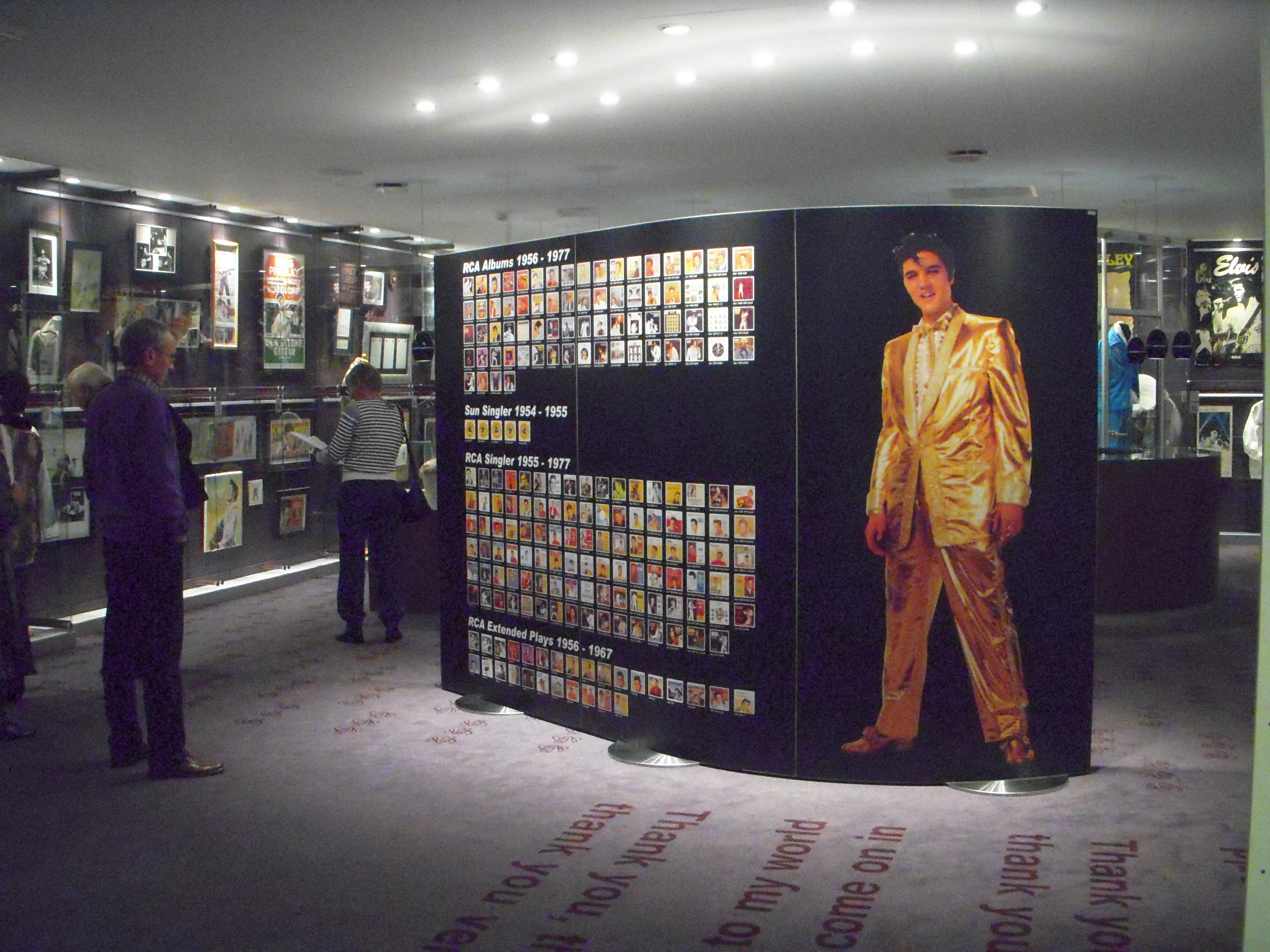 Graceland Randers is a Danish Elvis Presley museum, restaurant, shop etc. From the Elvis-museum in the basement.